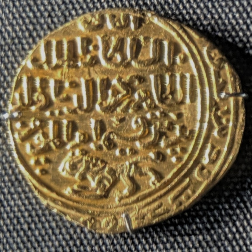 Gold dinar of Rukn al-Din al-Zahir Baybars I, (658-676 H/1260-1277 AD) struck in Cairo c. 661-676 H (1262-1277 AD) Photograph taken by me in the David Museum. More information about this coin